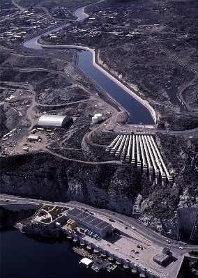 The Grand Coulee Dam pumping station which pumps water into Banks Lake.